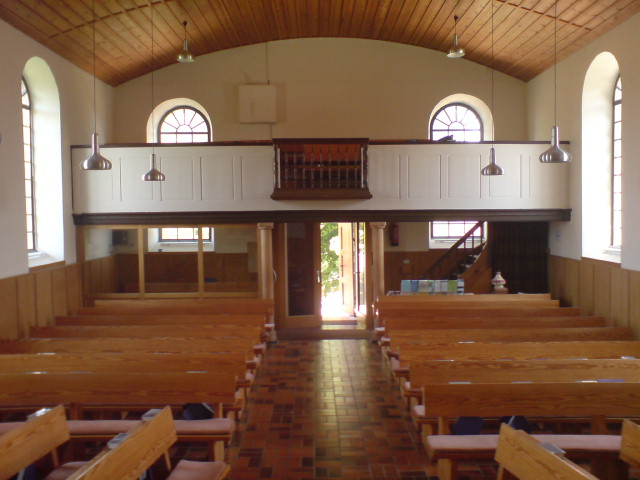 The inner of the Mennonite Church ("Bethaus") in Bolanden-Weierhof